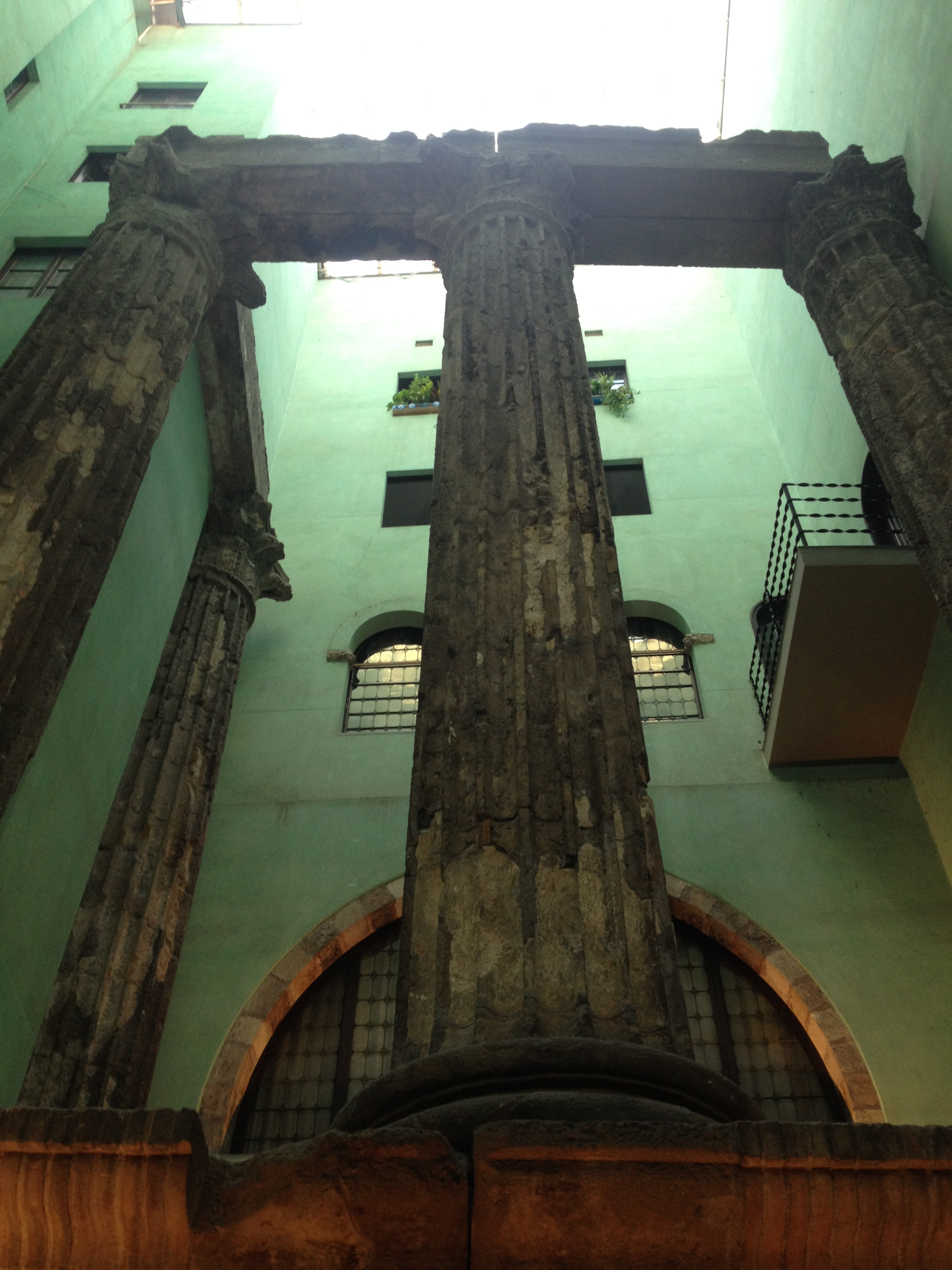 Roman columns inside the building of the Centro Excursionista de Catalunya in Barcelona